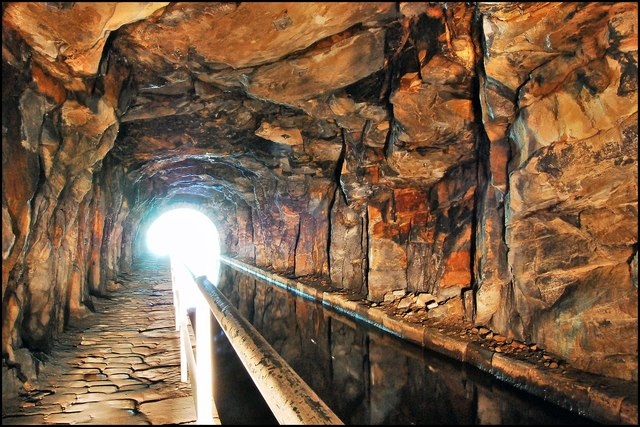 Scout tunnel Scout tunnel is situated on the Huddersfield narrow canal between Stalybridge and Mossley, Lancashire. Scout tunnel is 616 ft (205 yds) long and is carved out of solid rock. The Huddersfield Narrow Canal runs for 20 miles between Huddersfield in West Yorkshire and Ashton under Lyne in Greater Manchester. Standedge Tunnel 5 miles away is Britain's longest canal tunnel at 3.25 miles long. This was one of our recent explores a few weeks earlier. You can read my full Subterranea Standedge-A trip back in time story here